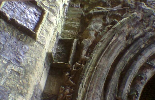 Carved detail surrounding the gate of St Bennets Abbey, now inside the remains of a wind-pump.